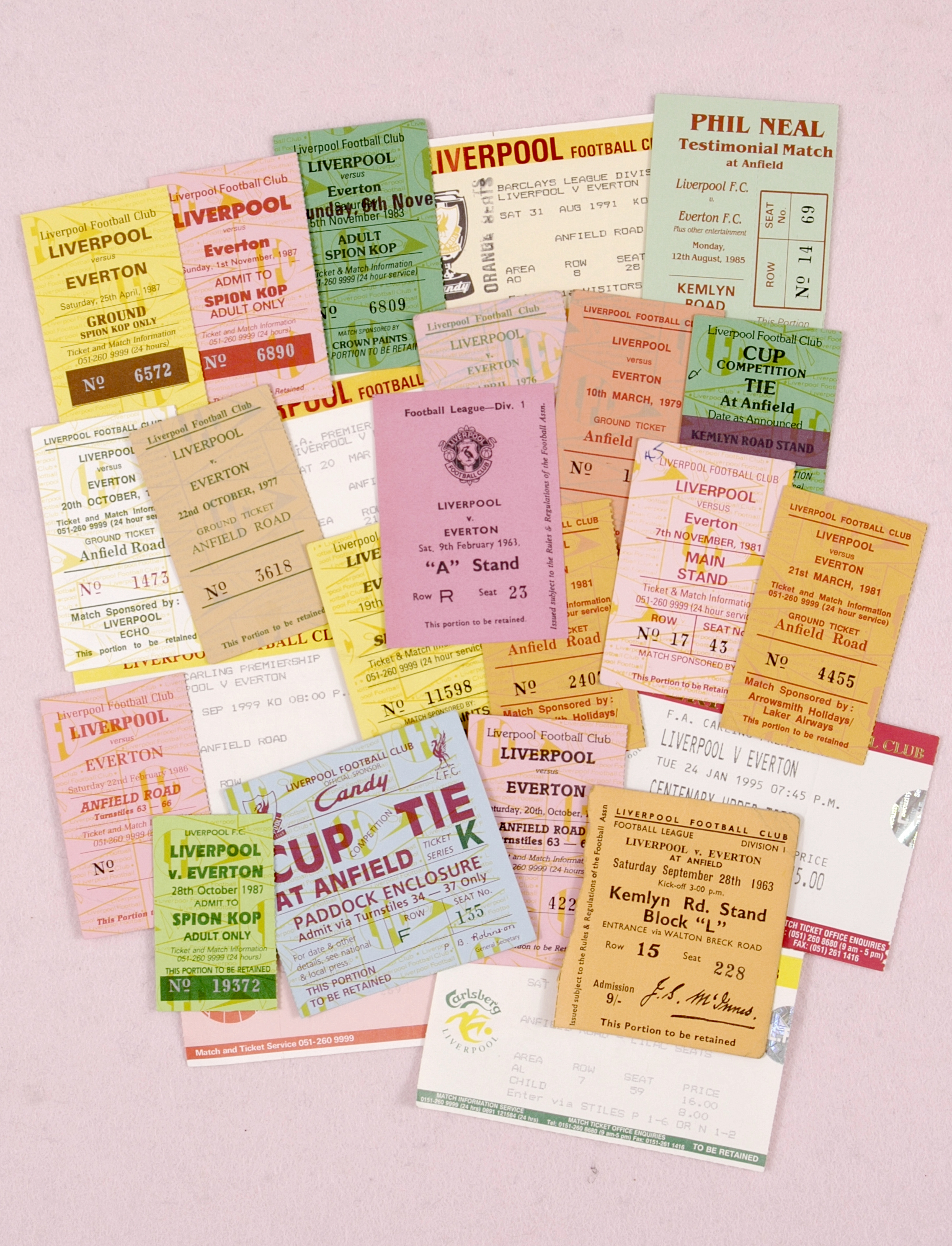 Ticket stubs from various matches between Everton F.C. and Liverpool F.C.